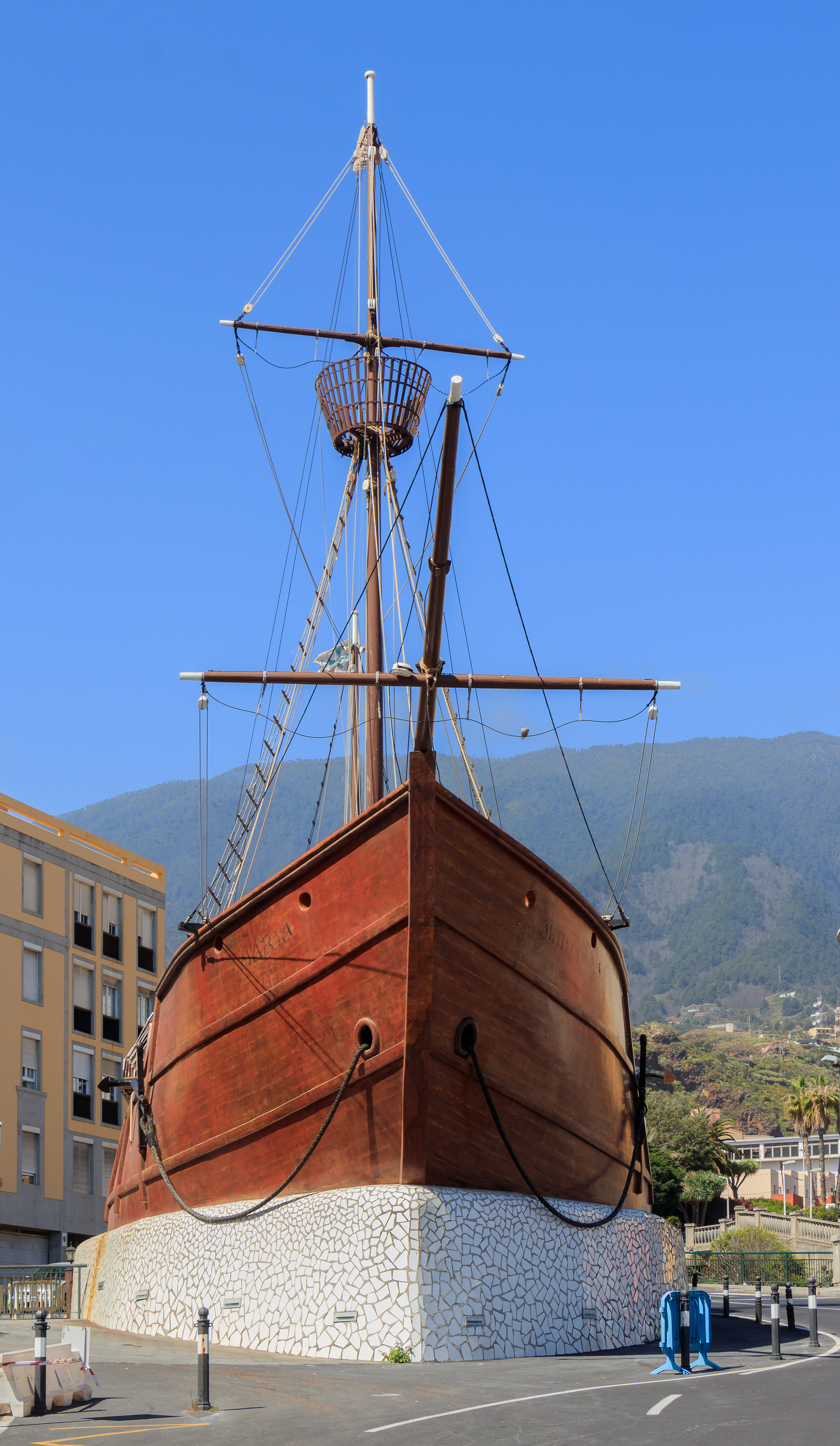 Museo Naval del Barco de la Virgen, Santa Cruz de La Palma, La Palma, Canary Islands, Spain.